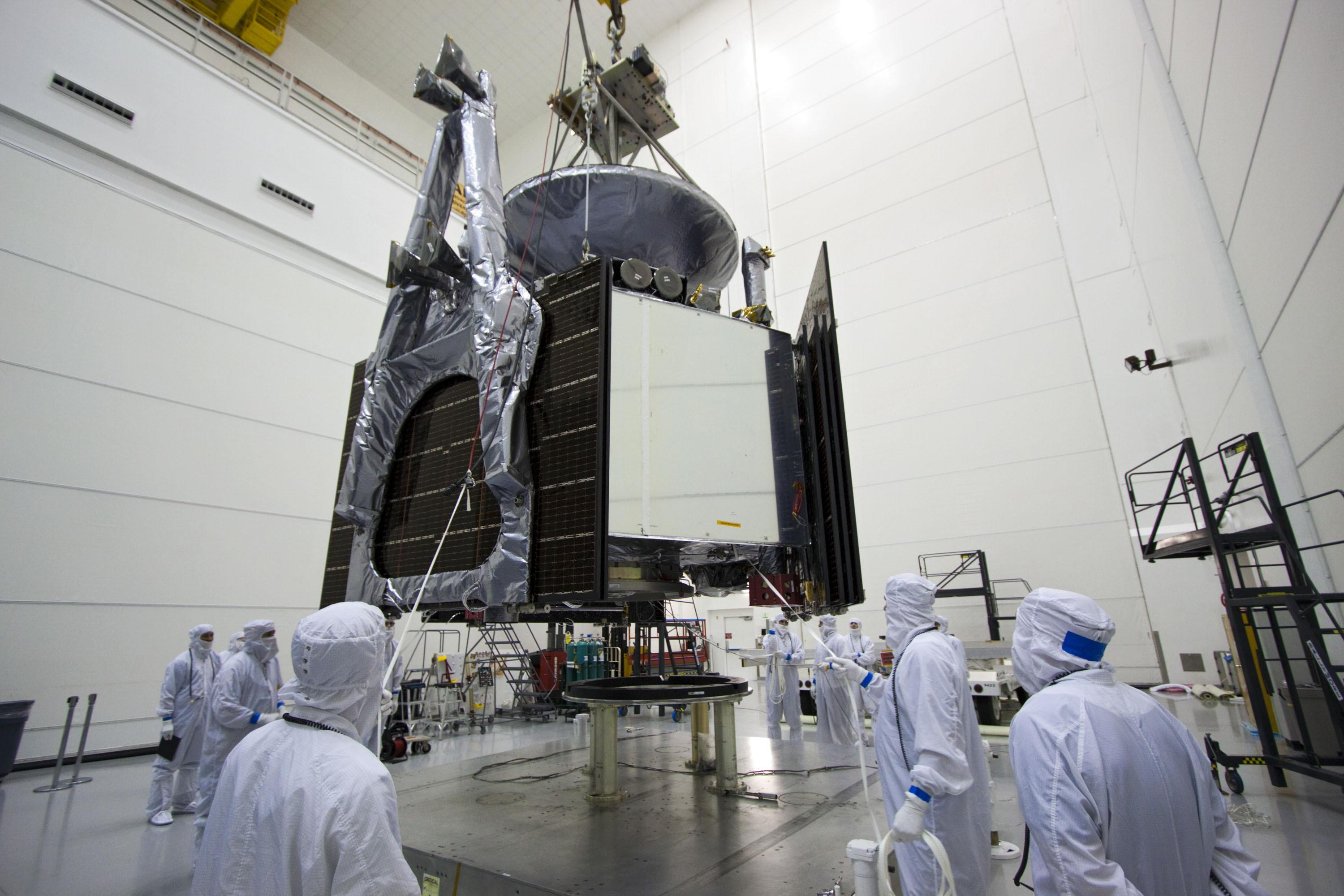 Technicians use an overhead crane to lower NASA's Juno spacecraft onto a fueling stand where the spacecraft will be loaded with the propellant necessary for its mission to Jupiter. Image was taken at Astrotech's Hazardous Processing Facility in Titusville, Fla., on June 27, 2011.